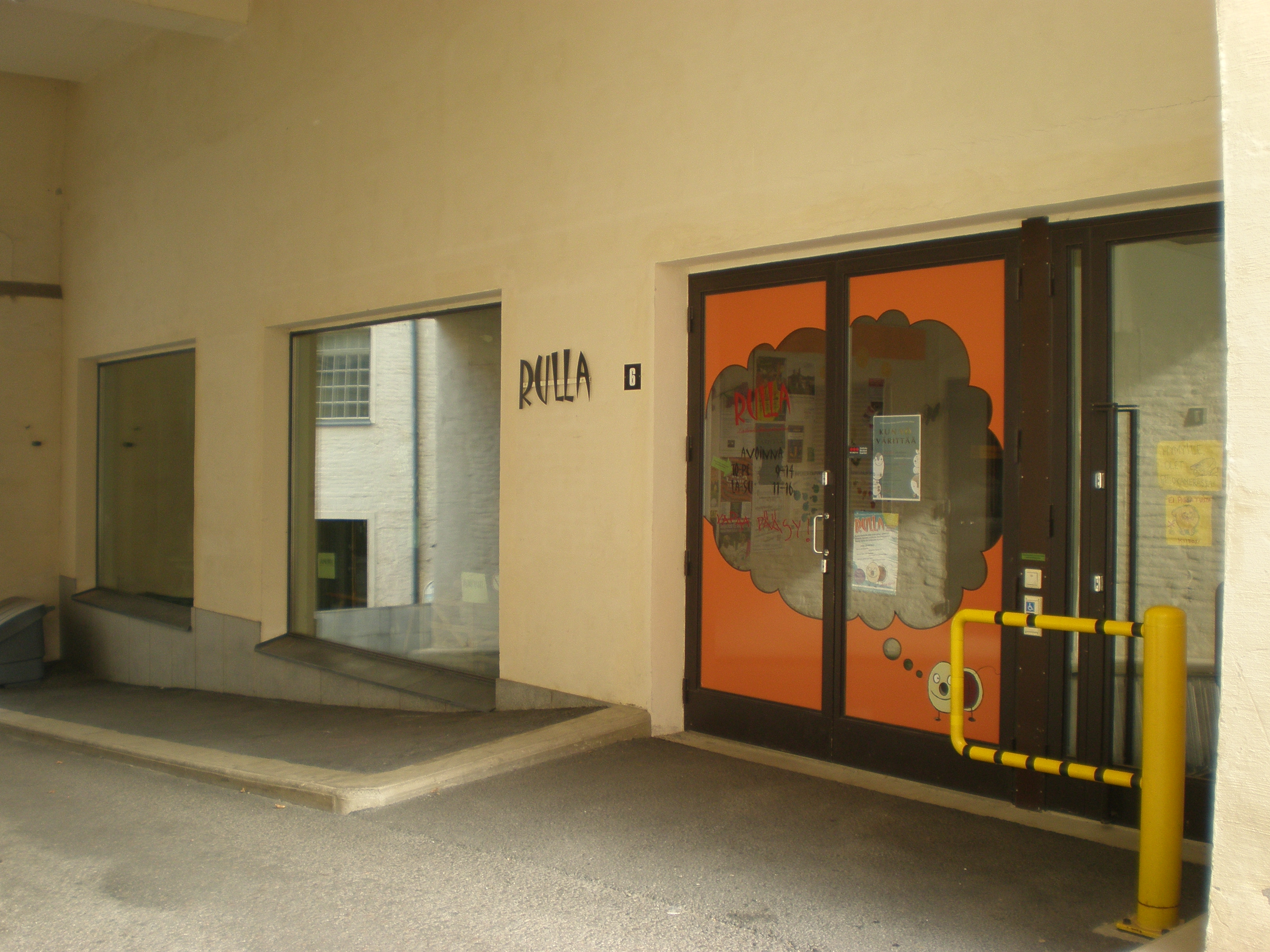 Entrance of Children’s Cultural Centre Rulla